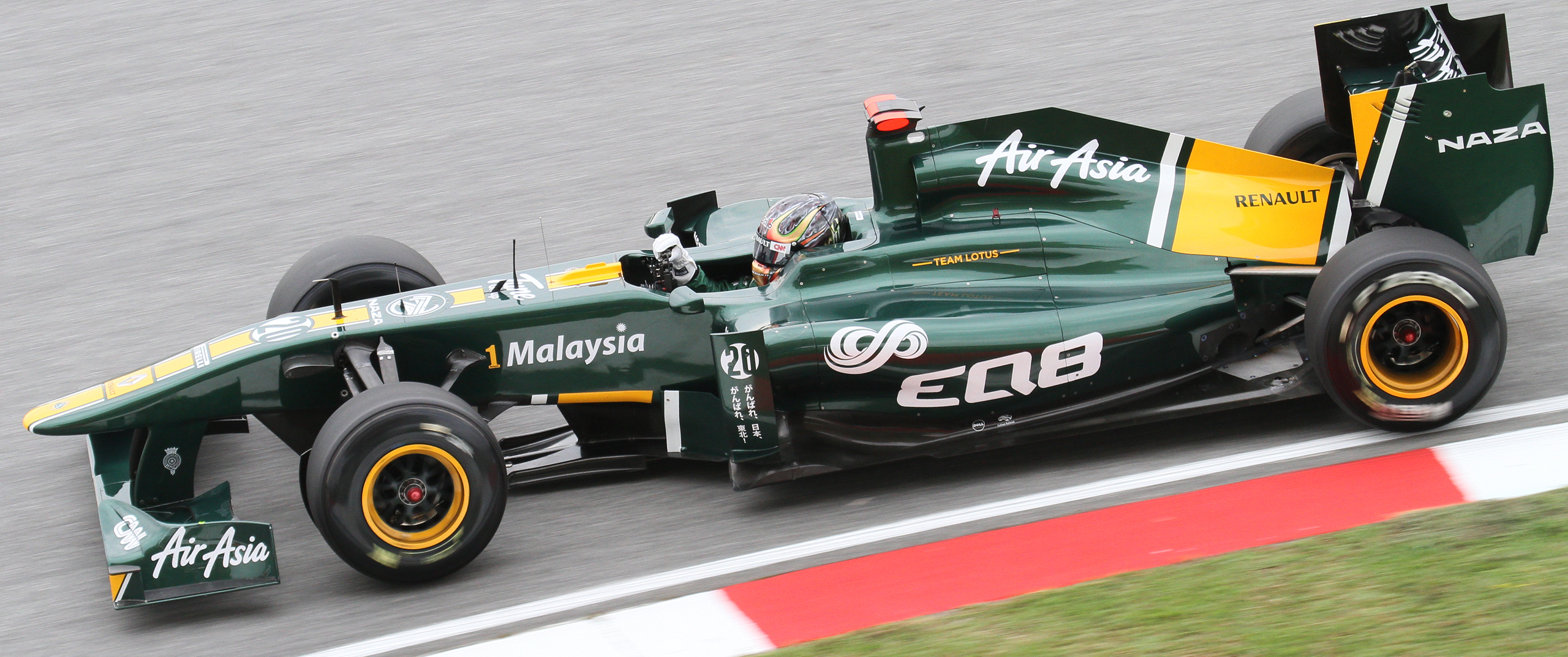 Formula One 2011 Rd.2 Malaysian GP: Davide Valsecchi (Lotus) during the first practice session on Friday.